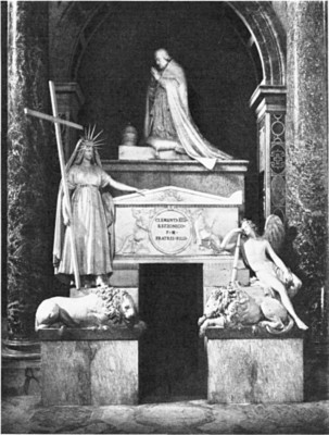 TOMB OF CLEMENT XIII, ST. PETER’S, ROME Antonio Canova